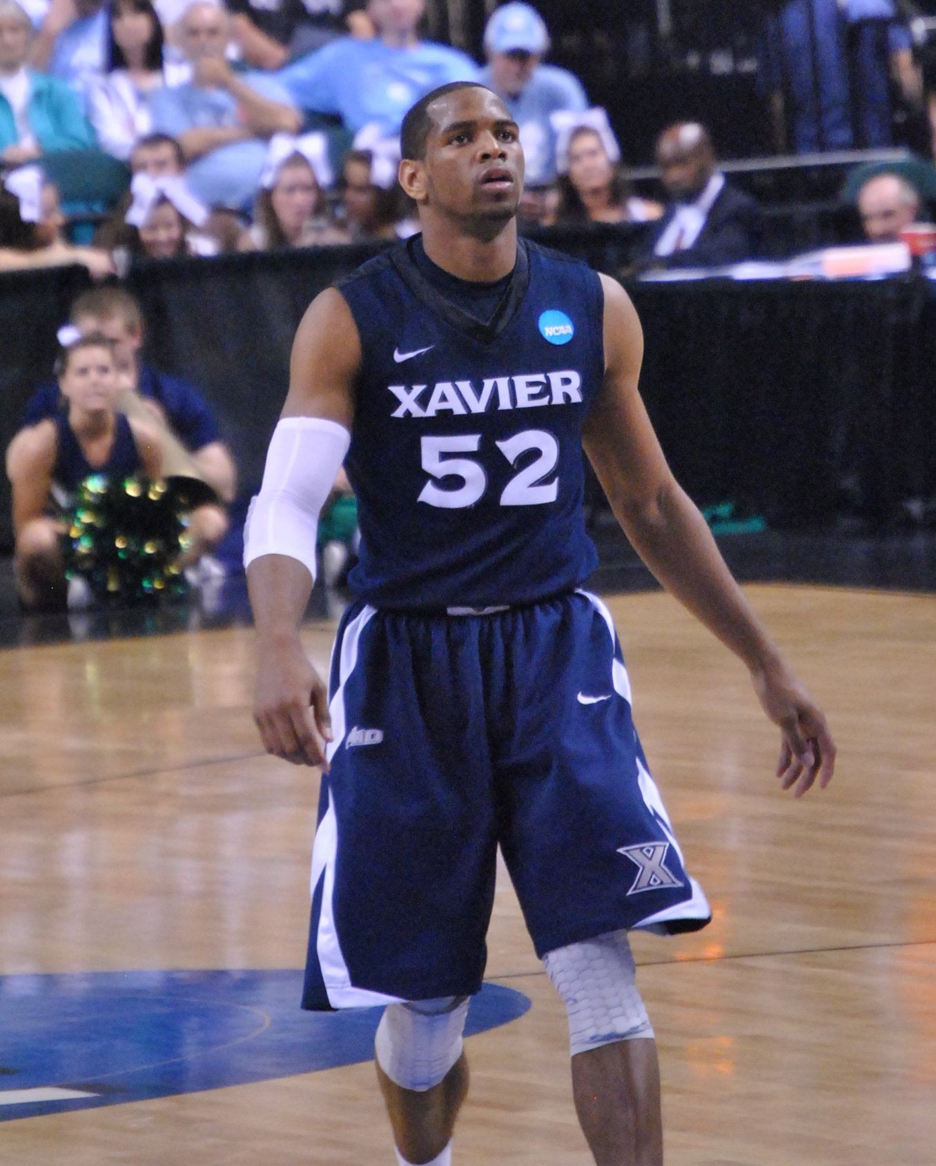 Tu Holloway on the Floor for the Musketeers in Greensboro